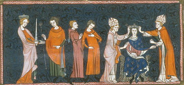 Miniature of Louis II le Begue receiving the sword and sceptre from Richilda (left), and his coronation (right). (British Library, Royal 16 G VI f. 237v)